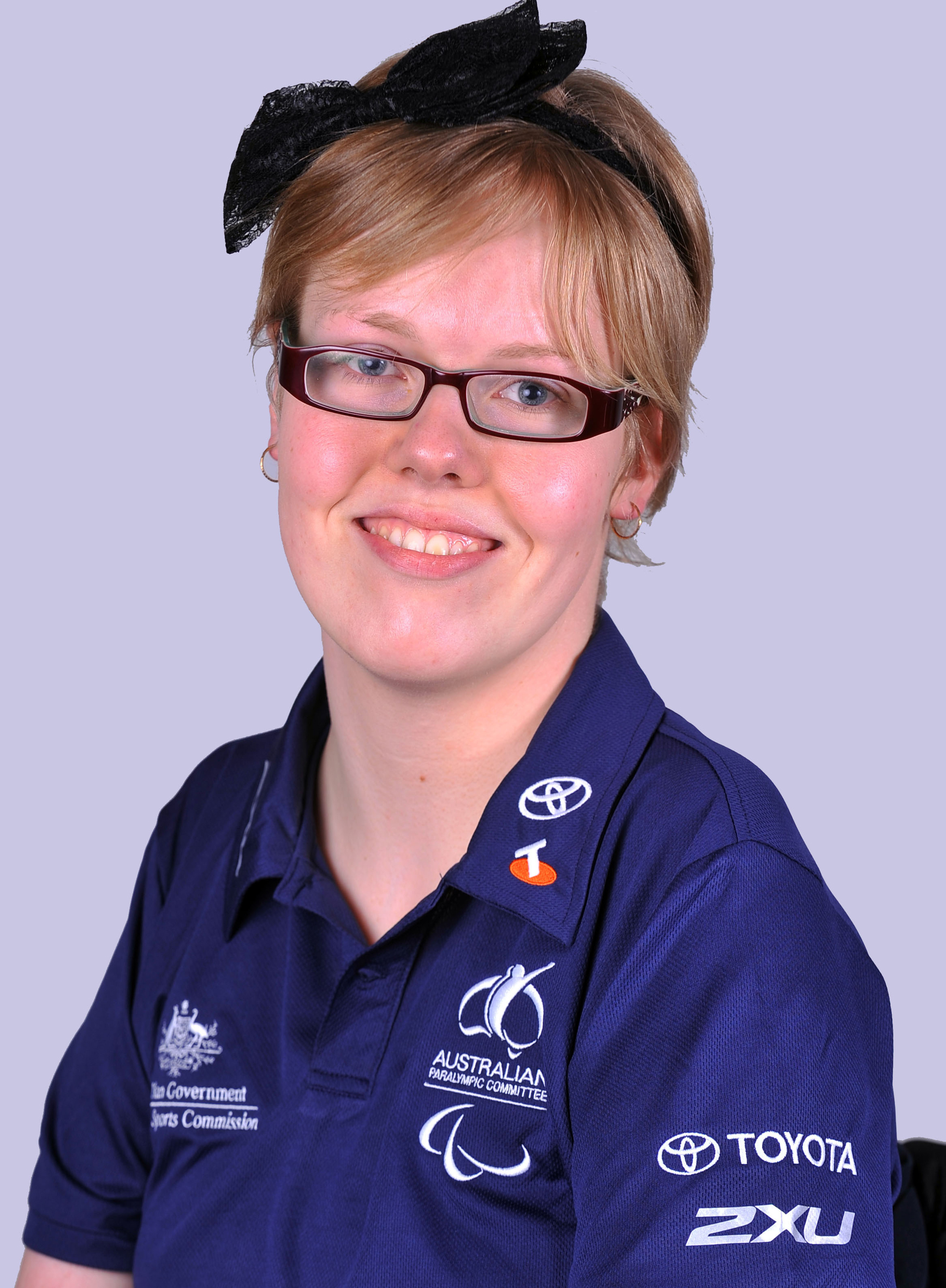 Portrait of Australian swimmer Esther Overton, 2012 Australian Paralympic (shadow) Team athlete